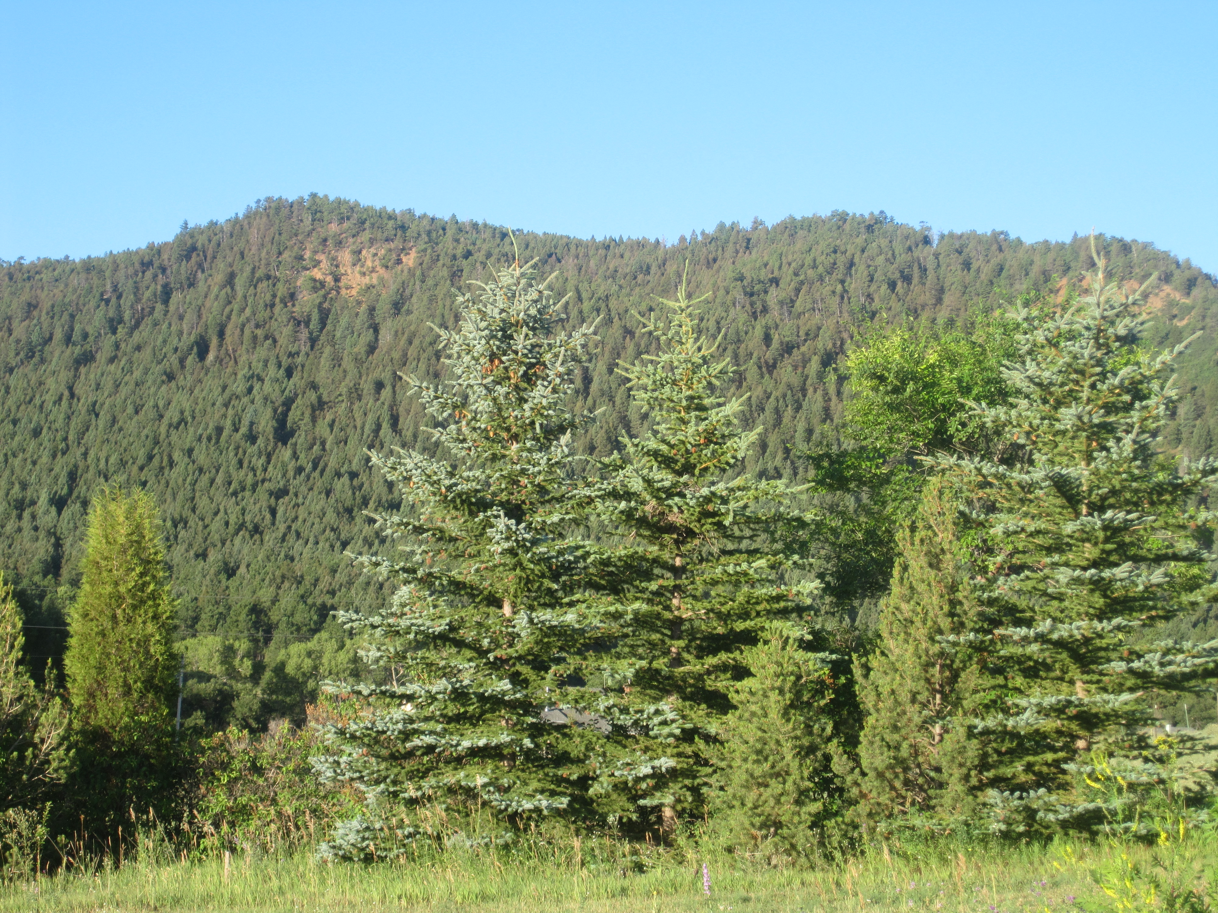 I took photo with Canon camera in El Paso County, CO.